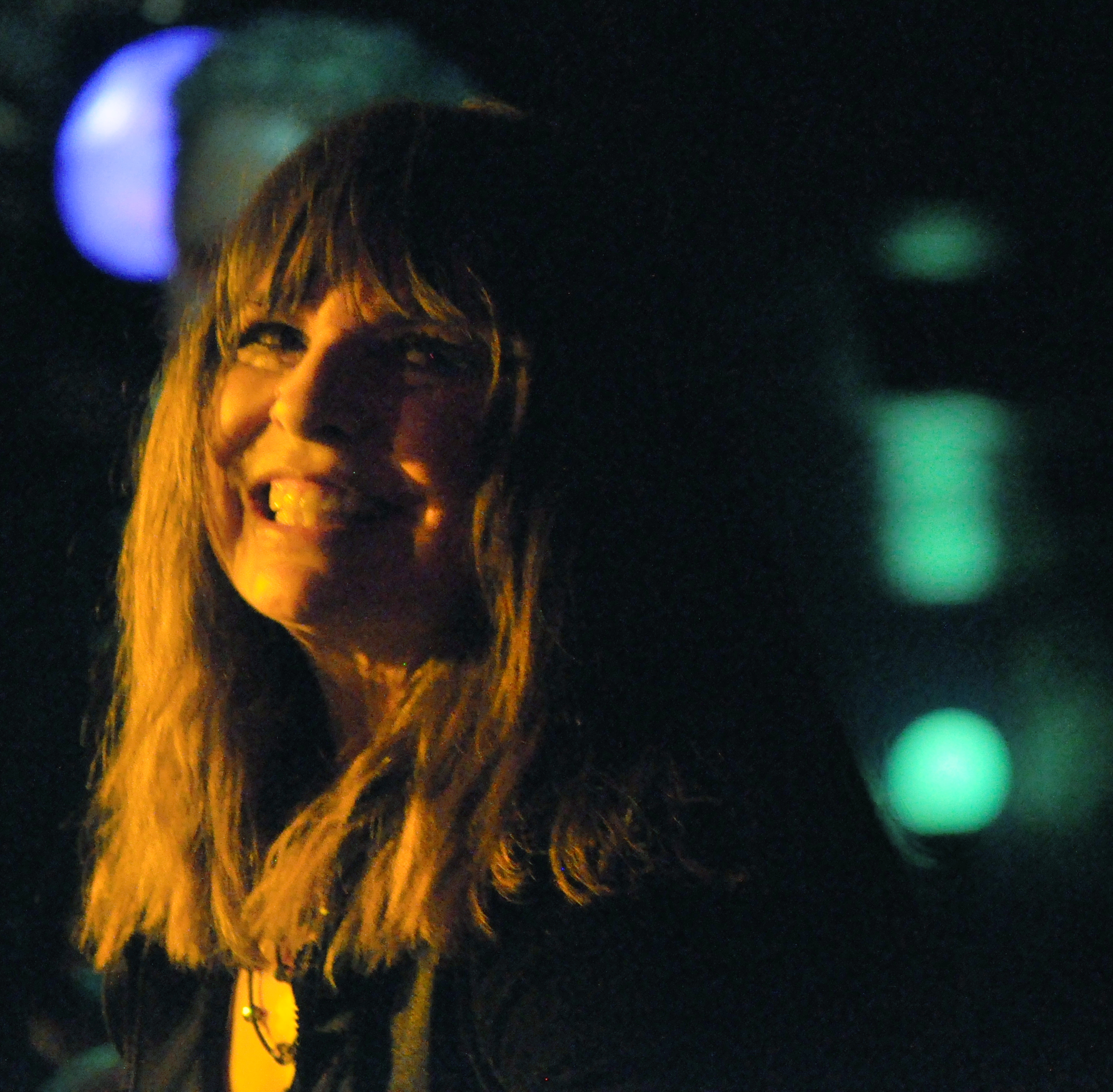 Singer Merrilee Rush performing at a benefit for the documentary film Her Aim Is True about Jini Dellaccio, Highway 99 Blues Club, Seattle, Washington, USA, February 17, 2013. (Cropped, colors adjusted.)